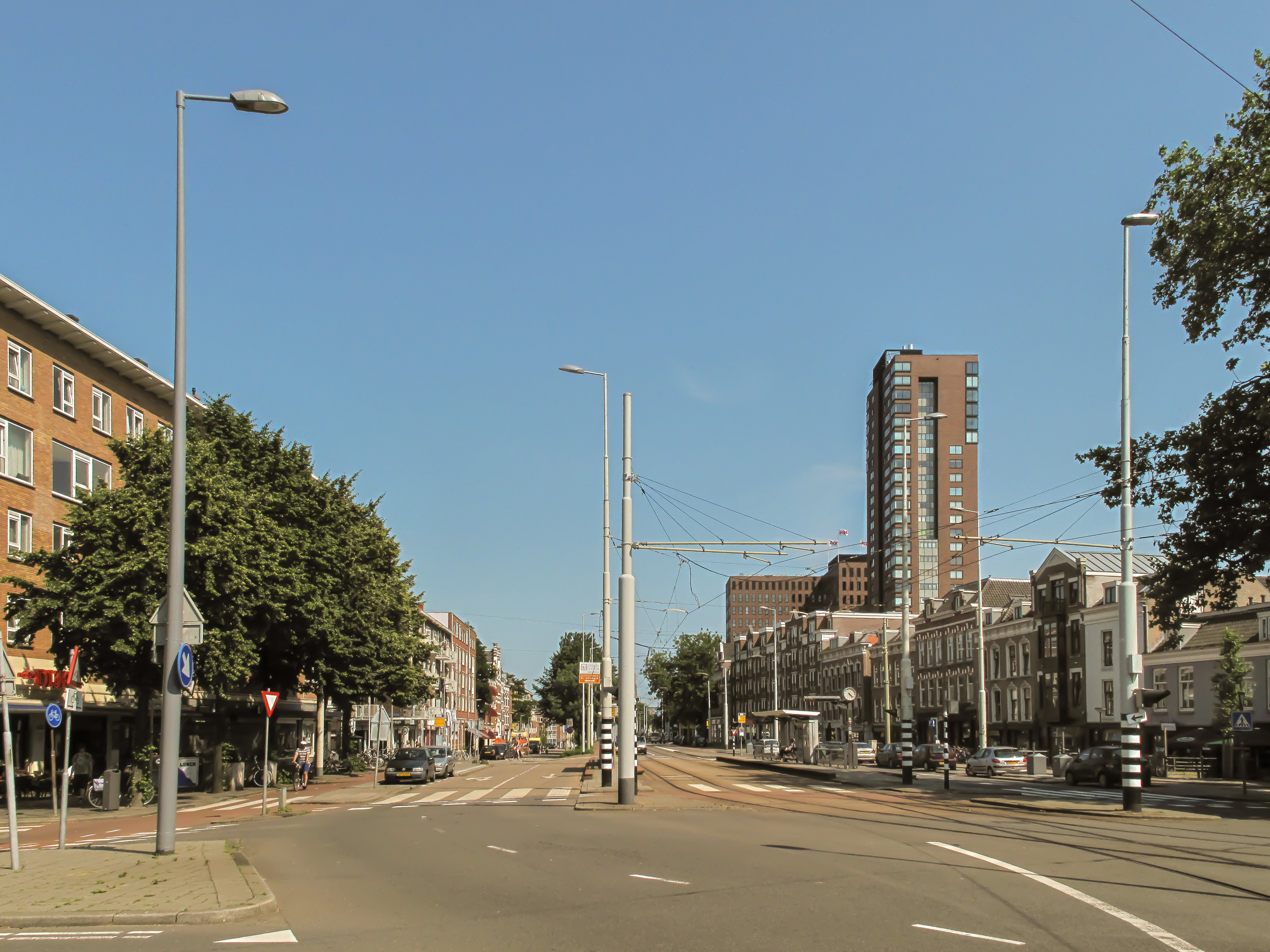 Rotterdam-Kralingen, view to a street: de Oostzeedijk